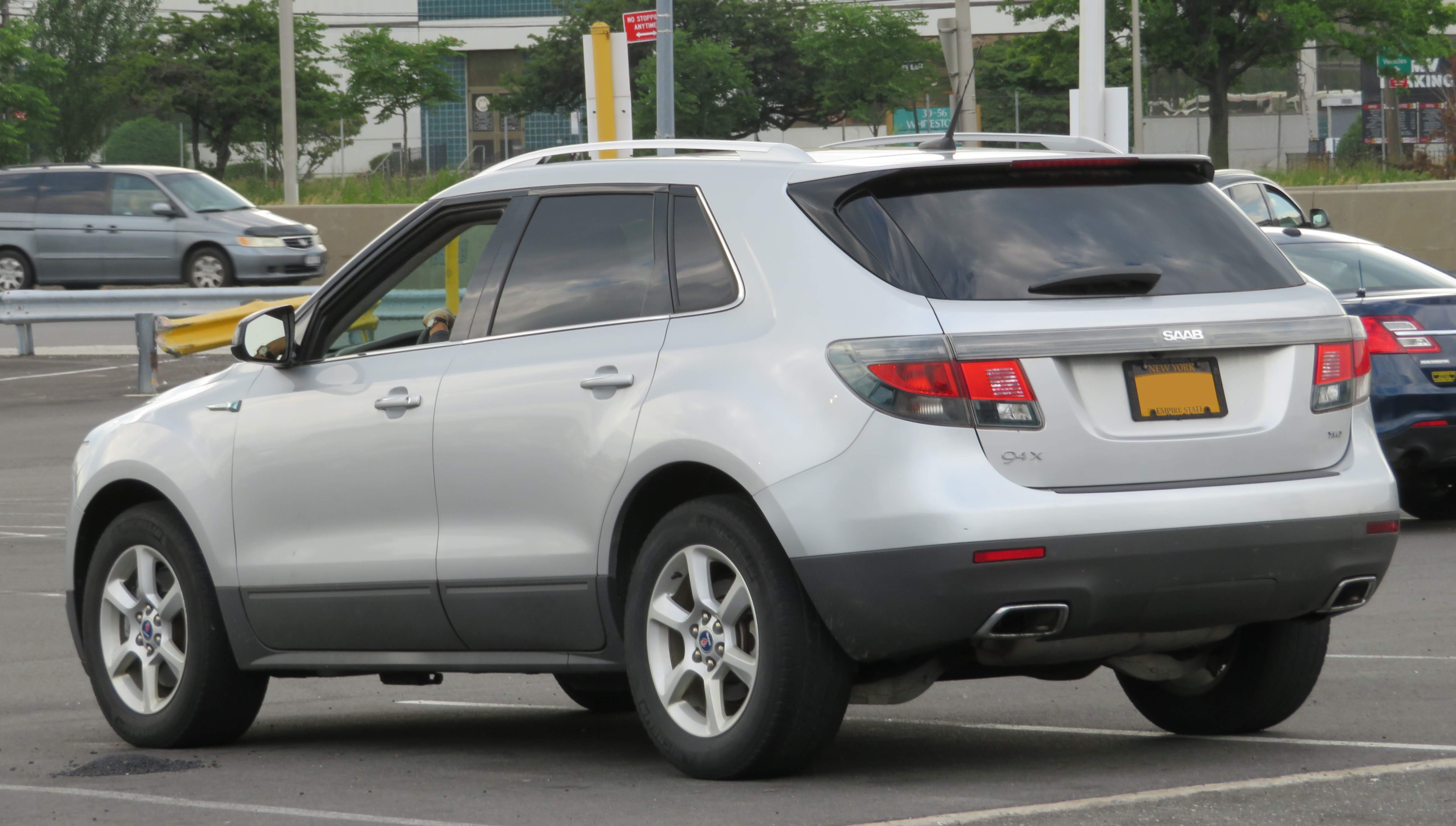 Photographed in Queens, New York